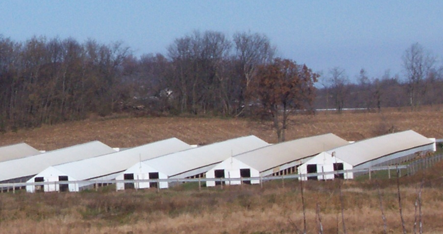 A mink (Mustela vison) farm near St. Anna, Wisconsin, United States